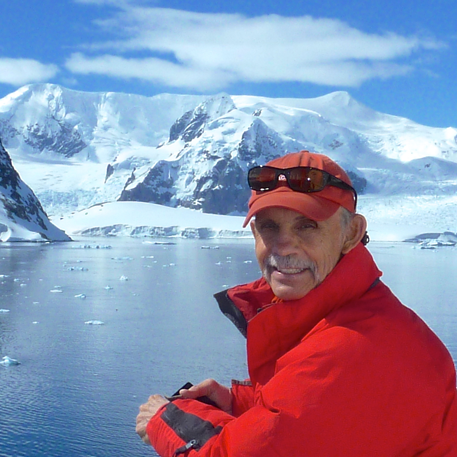 Fred T. Mackenzie, scholar and traveler